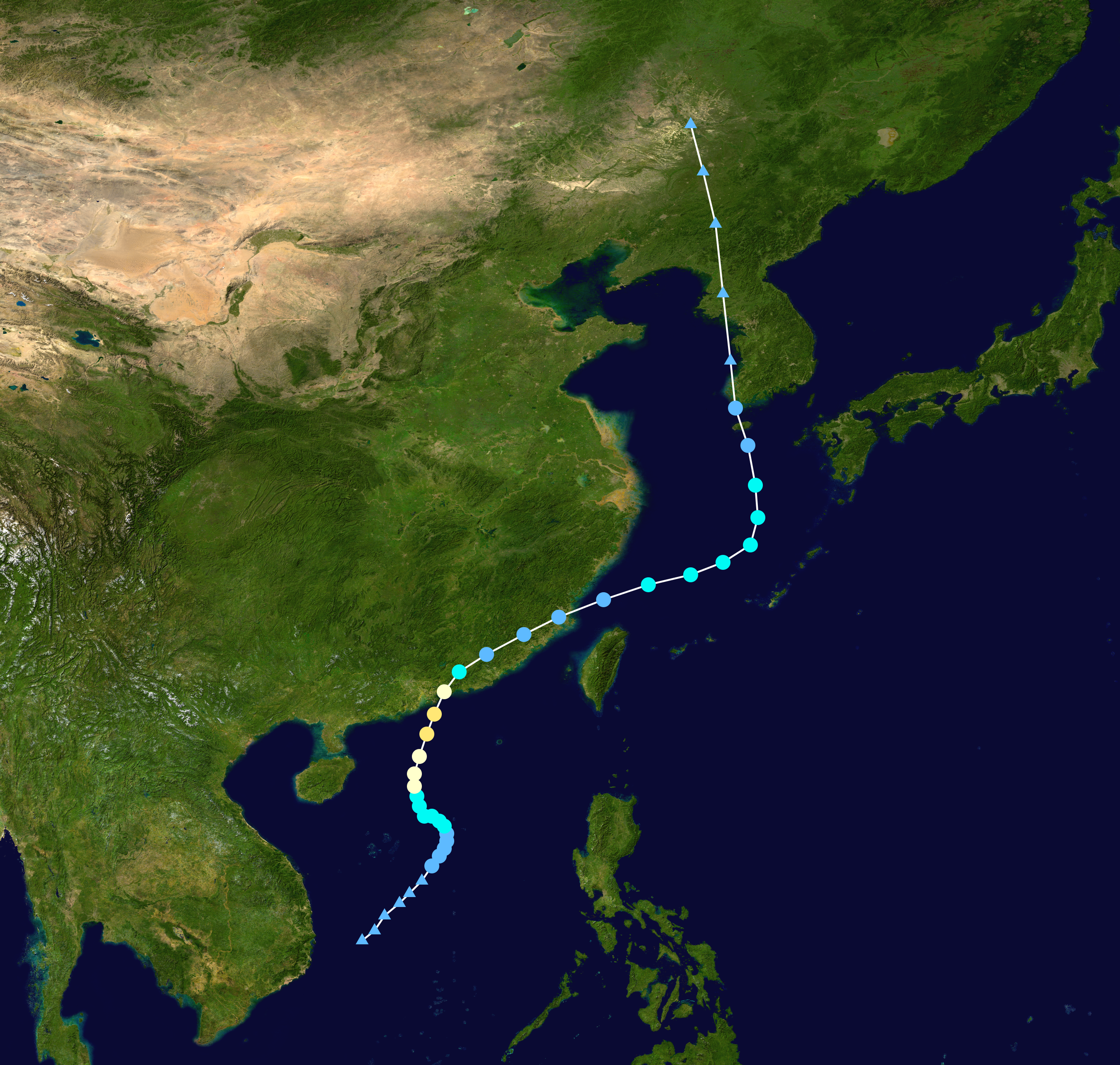 Track map of Typhoon Dot of the 1973 Pacific typhoon season. The points show the location of the storm at 6-hour intervals. The colour represents the storm's maximum sustained wind speeds as classified in the Saffir–Simpson scale (see below), and the shape of the data points represent the nature of the storm, according to the legend below. Saffir–Simpson scale Tropical depression≤38 mph≤62 km/h Category 3111–129 mph178–208 km/h Tropical storm39–73 mph63–118 km/h Category 4130–156 mph209–251 km/h Category 174–95 mph119–153 km/h Category 5≥157 mph≥252 km/h Category 296–110 mph154–177 km/h Unknown Storm typeTropical cycloneSubtropical cycloneExtratropical cyclone / Remnant low / Tropical disturbance